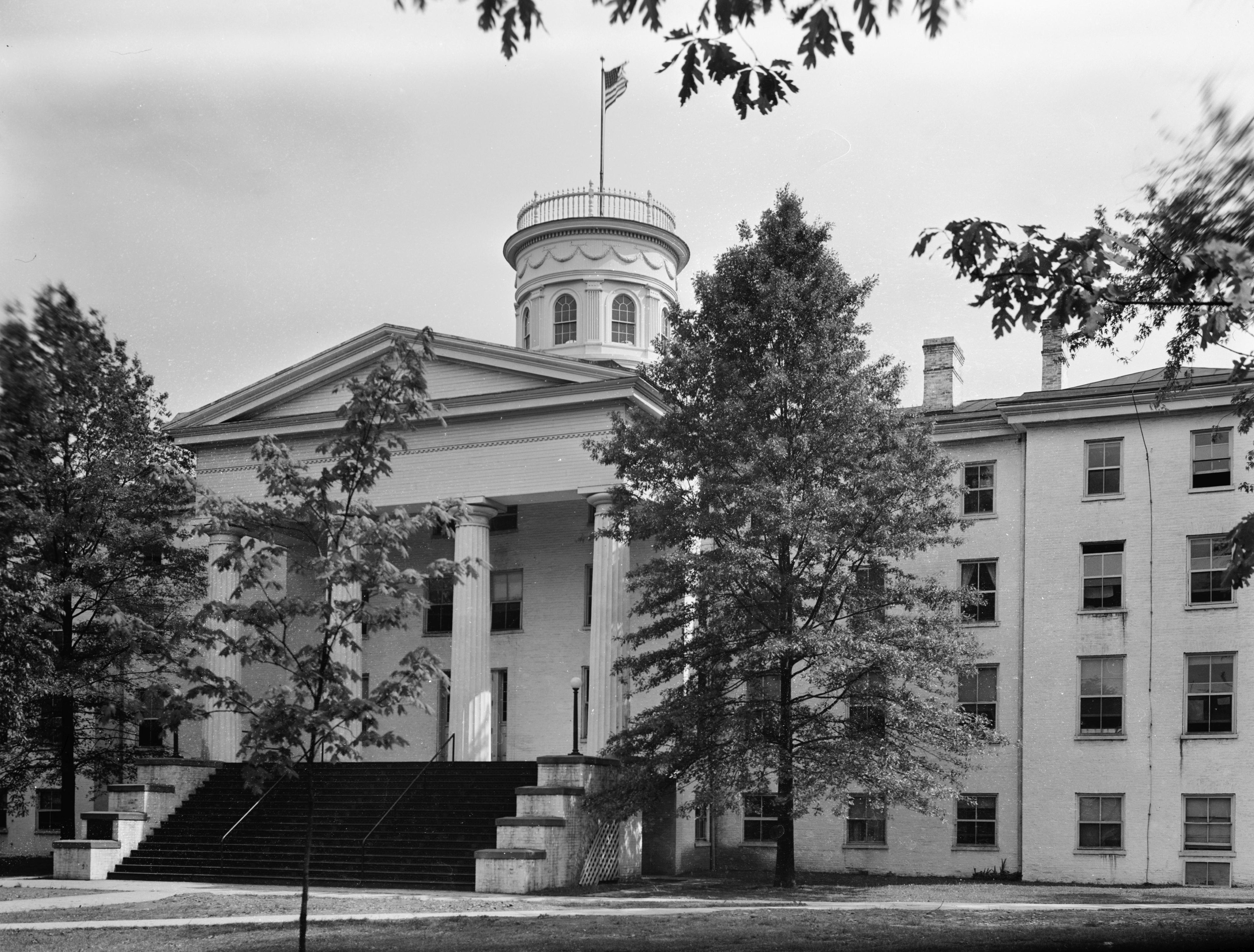 Front of Pennsylvania Hall, Gettysburg College, located on the campus of Gettysburg College in Gettysburg, Pennsylvania, United States. Built in 1837, it is listed on the National Register of Historic Places.